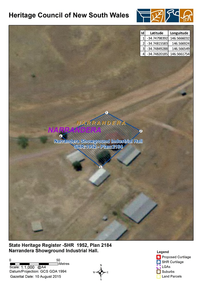 Narrandera Showground Industrial Hall: SHR Plan 2184